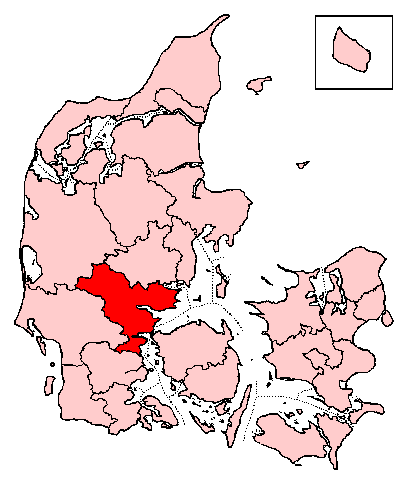 Map of Vejle County 1793-1970